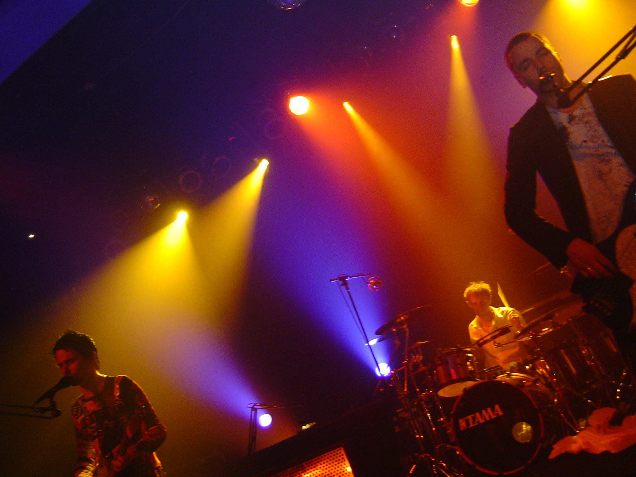 Author:Madchester Mod Club Theatre, Toronto, April 2004